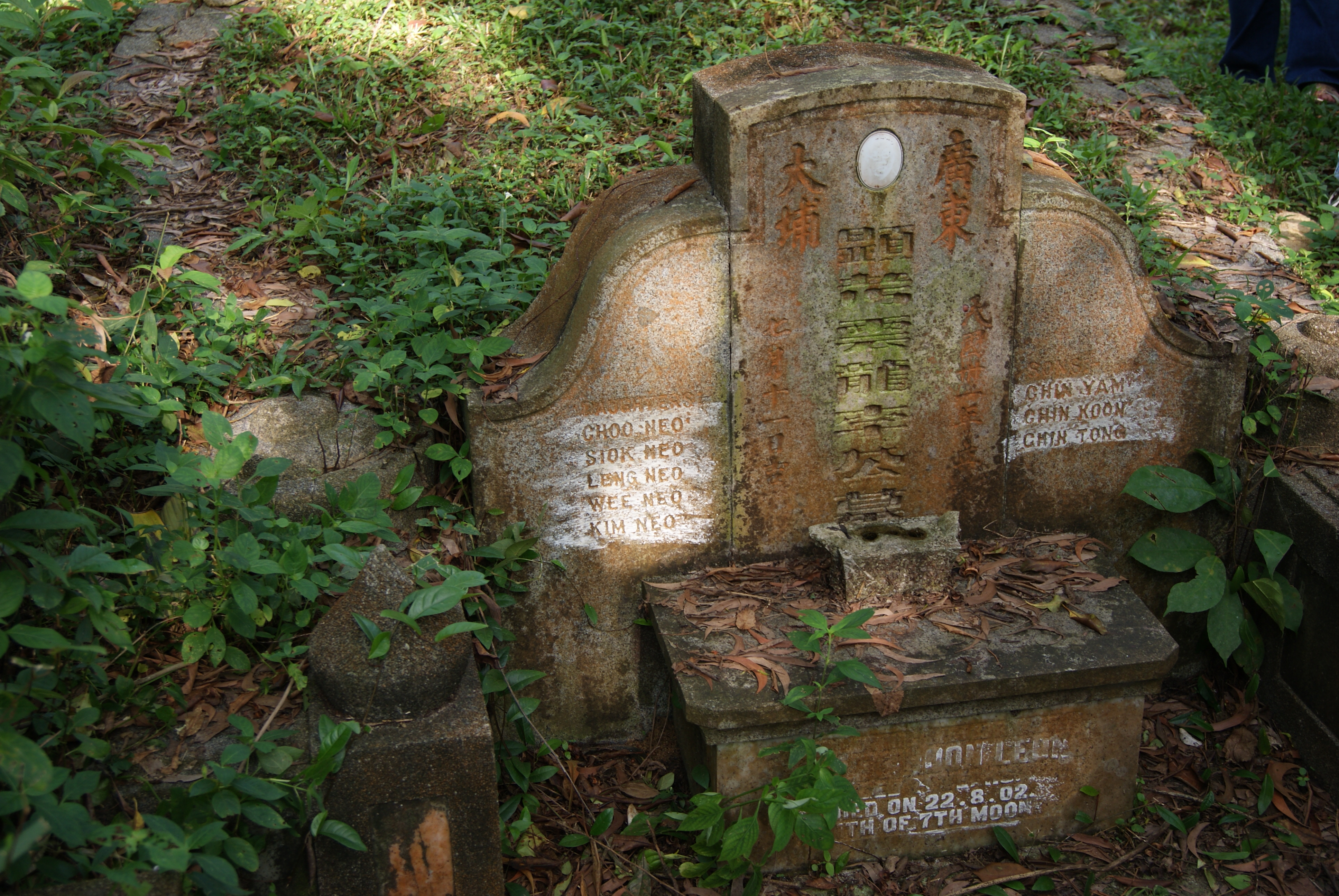 The gravestone of Lee Hoon Leong, grandfather of Lee Kuan Yew (former Prime Minister of Singapore), in the Bukit Brown Cemetery, Singapore. The names of Lee Hoon Leong's sons and daughters have been highlighted with chalk.